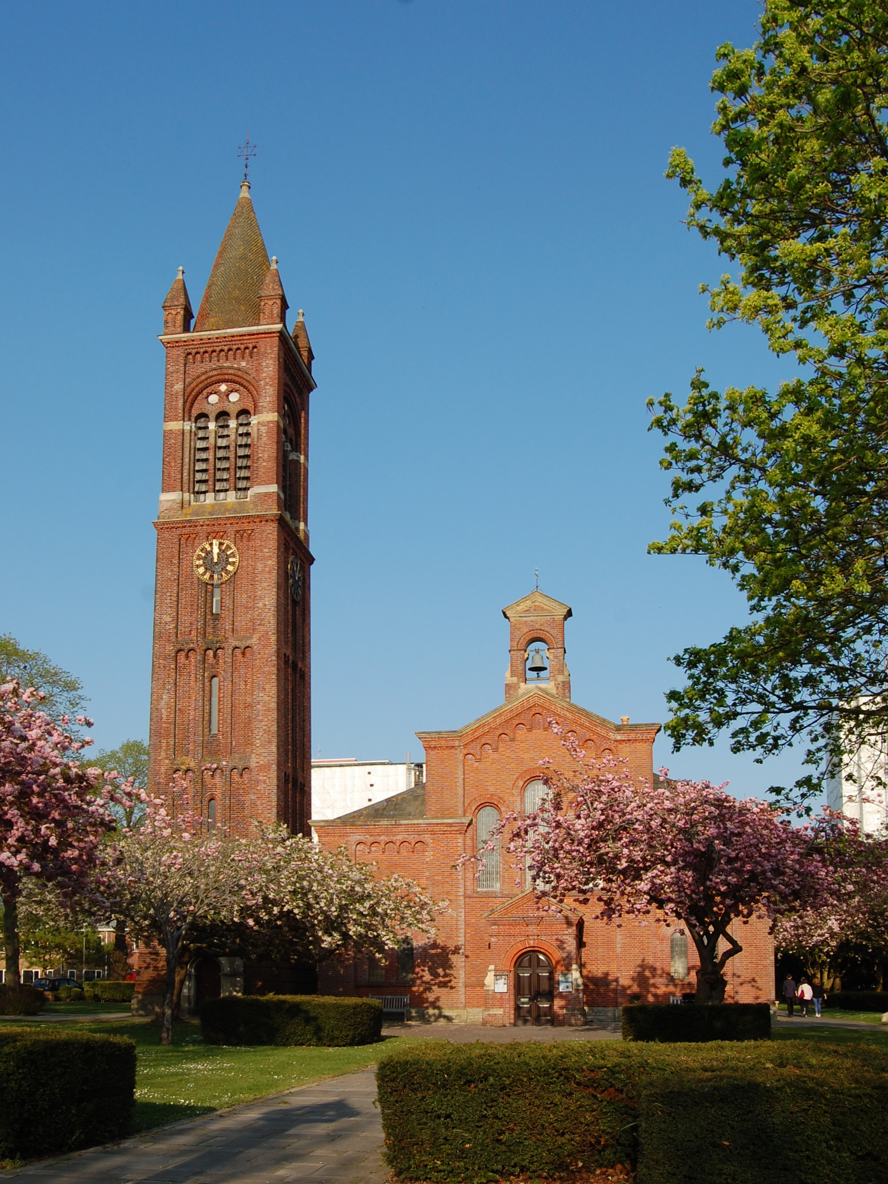 Holy Trinity Church, Trinity Green, Gosport, Borough of Gosport, Hampshire. Built in 1696 close to the harbour as a chapel of ease to the ancient parish church at Alverstoke.